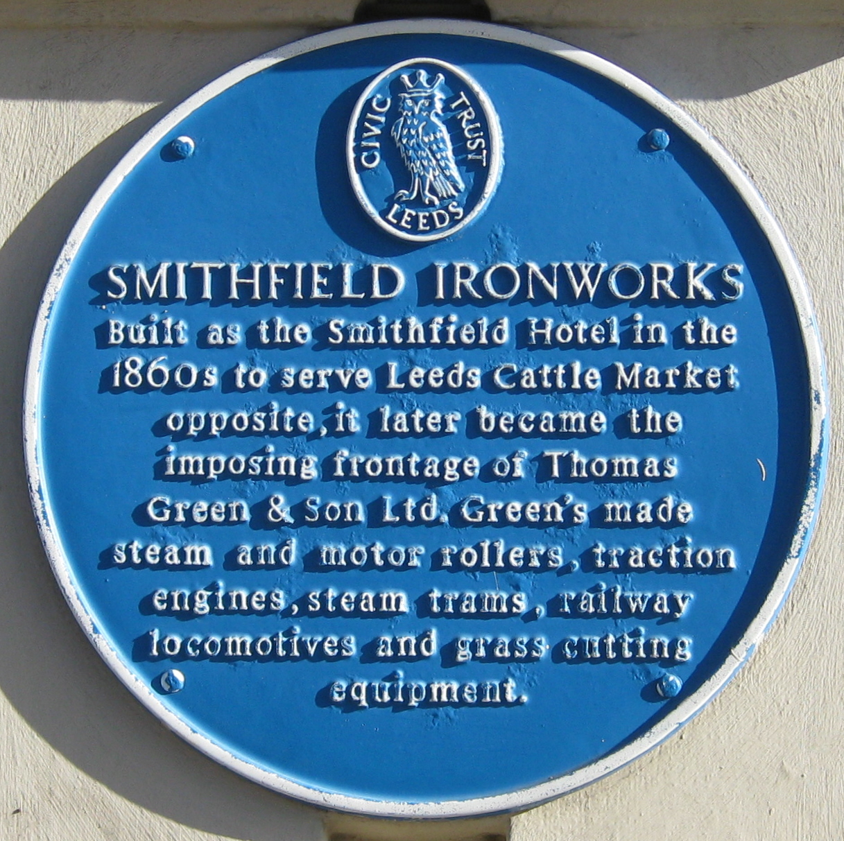 Blue plaque on Smithfield Hotel (1860 to 1900), later the offices of Smithfield Iron Works of Thomas Green & Son (till 1975), North Street, Leeds. Cropped just to plaque